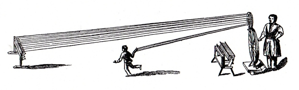 Silk throwing:- [1] published on his blog the illustrations from THE PENNY MAGAZINE, VOL XII No. 711. 1843. Pages 161 to 168. (SUPPLEMENT). Text available Bednall archive Silk throwing by hand, to a throwster this is called 'spinning'. Not to be confused with waste silk spinning where short staples of silk are spun together as if worsted.